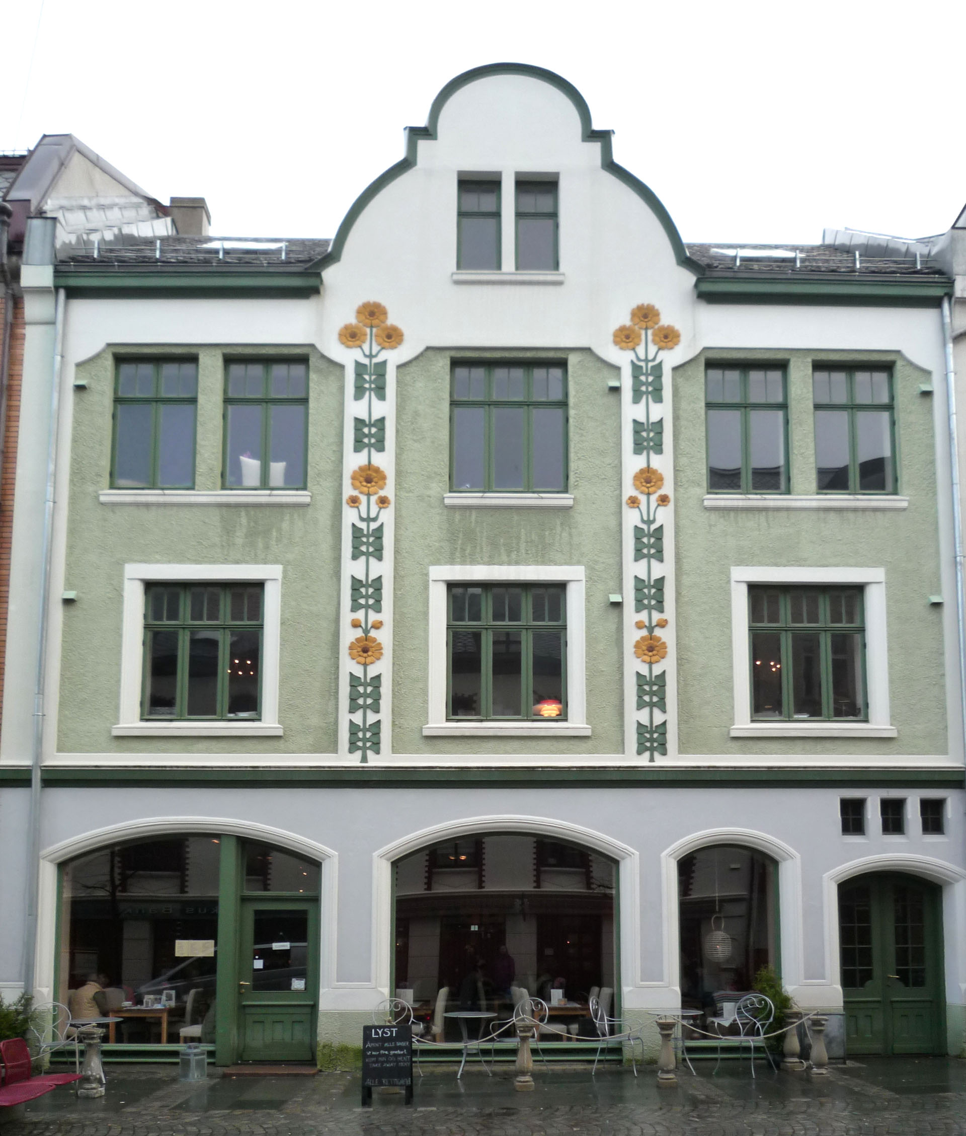 Kongensgate 12, Ålesund.